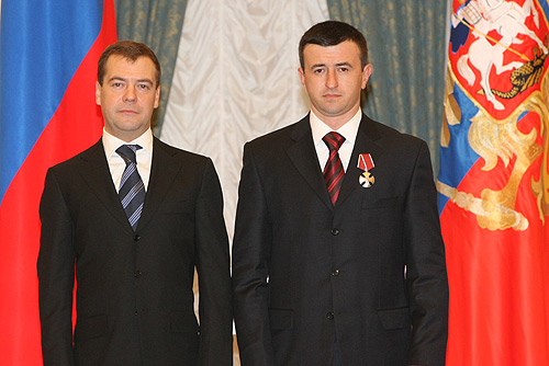 THE KREMLIN, MOSCOW. Ceremony presenting decorations to Russian journalists. Pyotr Gassiev, producer and cameraman for television channel NTV’s regional bureau in the Republic of Dagestan, was awarded the Order of Courage.